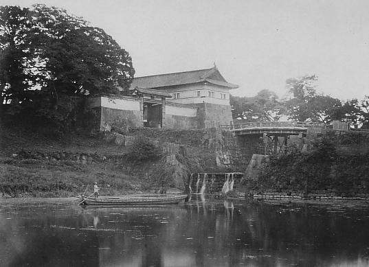 Ushigome-Mon(now defunct gate)